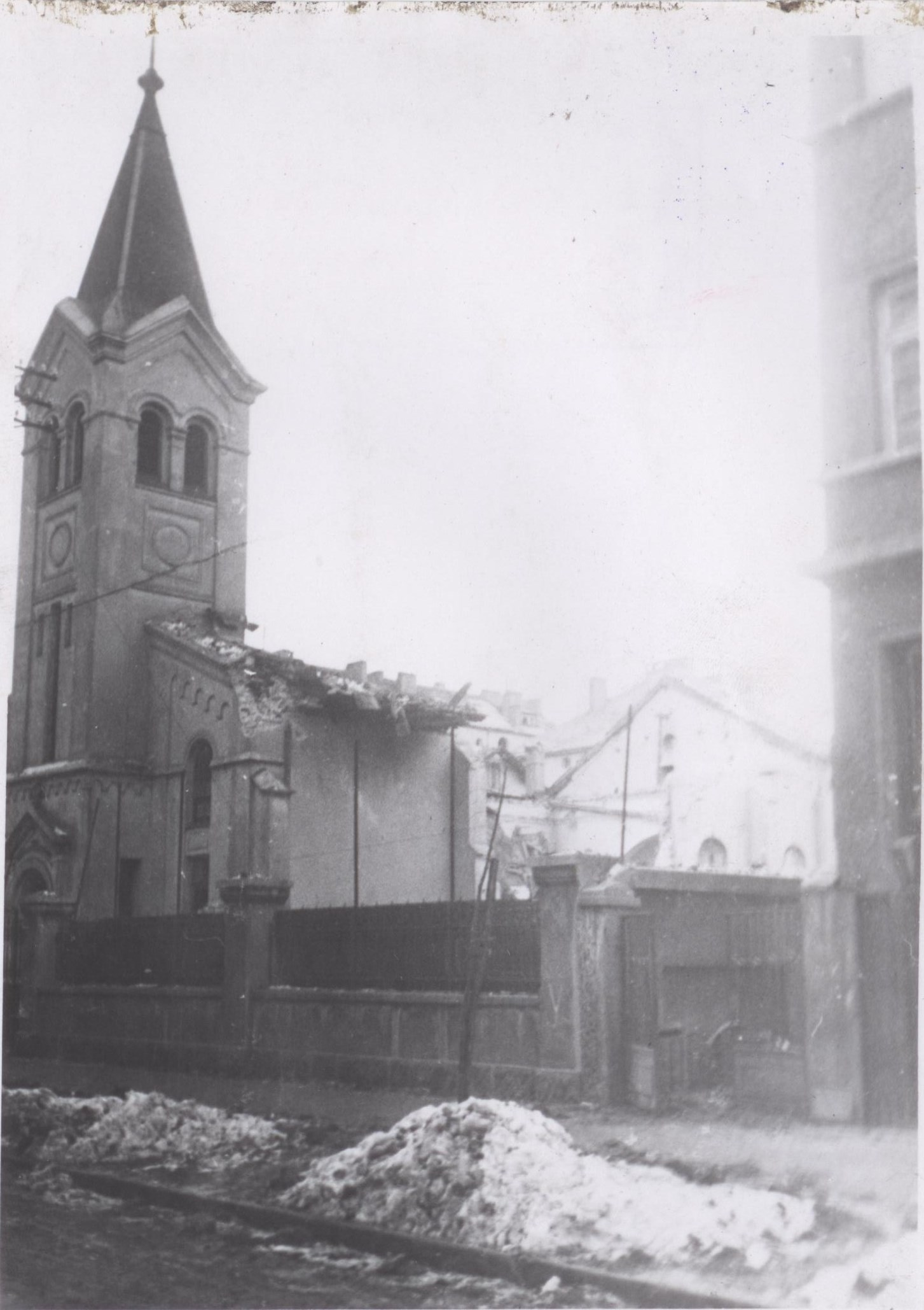 Sofia Bombings 1944: The Evangelist Church